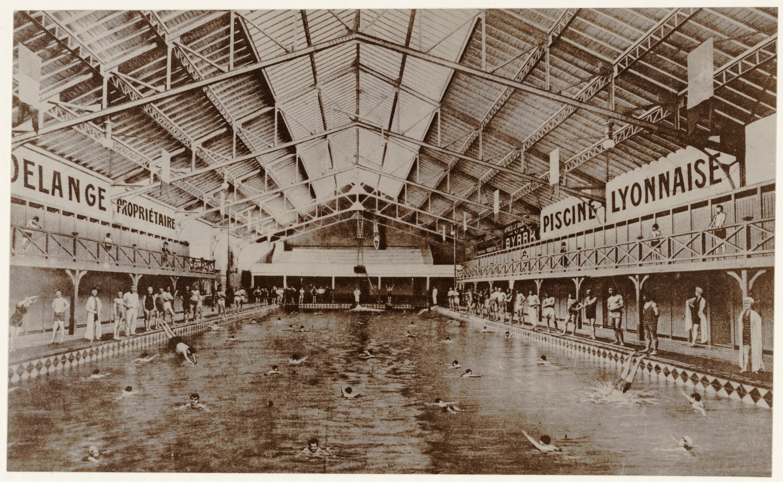 Delange Pool built by Delange in 1907-1908.